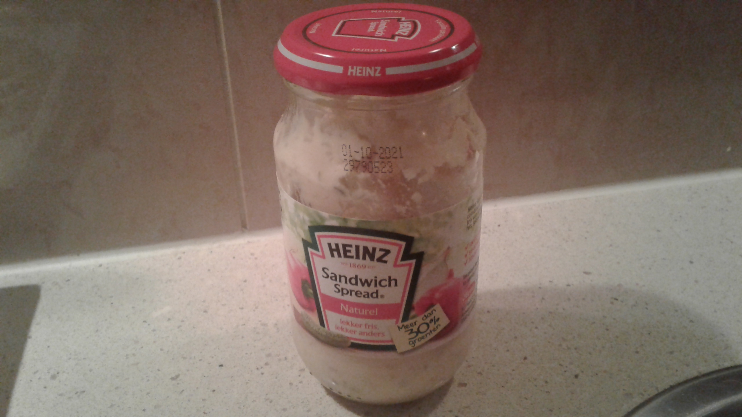 Sandwich spread from Heinz